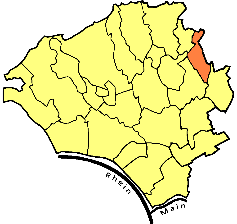 Map of Wiesbaden showing the location of Medenbach